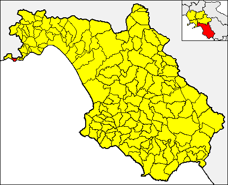 Locator map of the municipality of Praiano (red) within the Province of Salerno